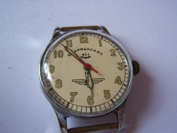 Shturmanskie